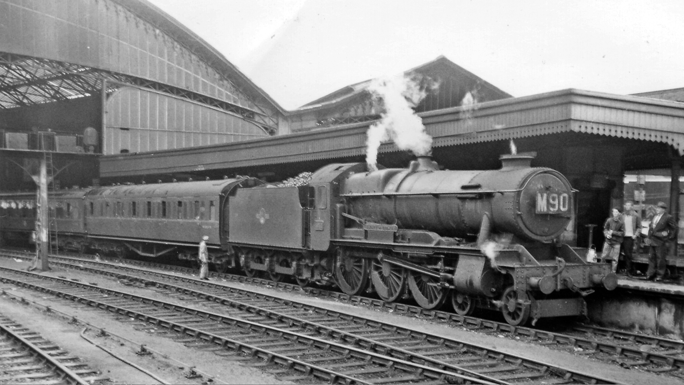 Exmouth - Manchester express at Bristol Temple Meads. Seen from Platforms 7/8, the Summer Saturday 09.18 Exmouth - Manchester (Piccadilly) express is about to leave northwards via the Severn Tunnel, Hereford, Shrewsbury and Crewe. The locomotive is Hawksworth 4-6-0 No. 1011 'County of Chester'. (Note the wheel-tapper by the first coach).